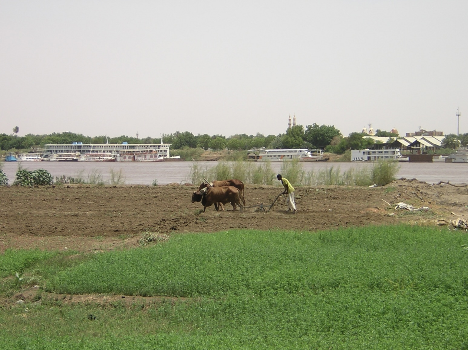 Cattle plowing on Tuti Island, Khartoum, Sudan.